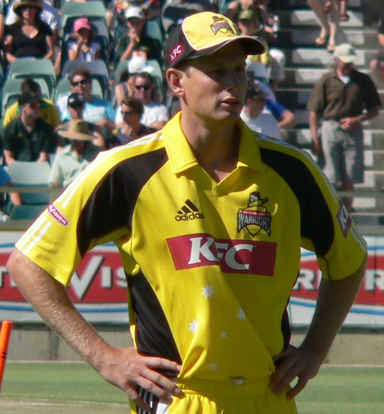 Adam Voges at the WACA Ground before the 2007-08 KFC Twenty20 Big Bash final.